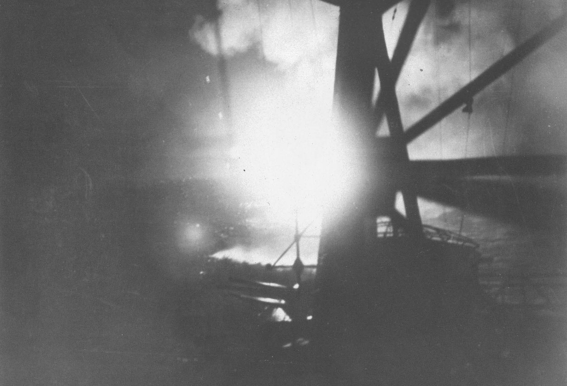 View from the Japanese cruiser Chokai of the battle with the Allied "southern" force as aerial flares illuminate the Allied cruisers HMAS Canberra (D33) and USS Chicago (CA-29) on 9 August 1942.